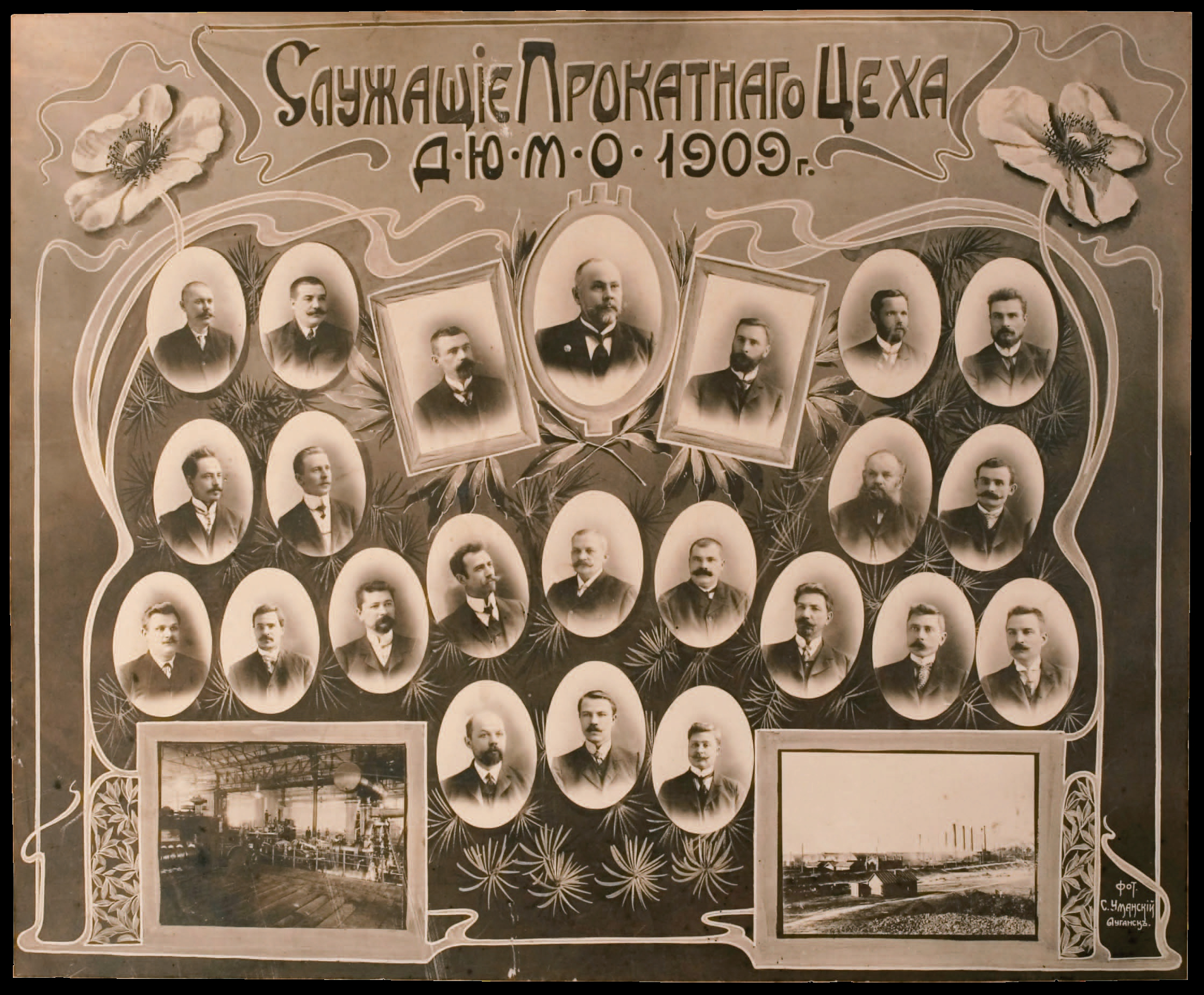 Group photo of the workers of roller workshop DYMC (1909)